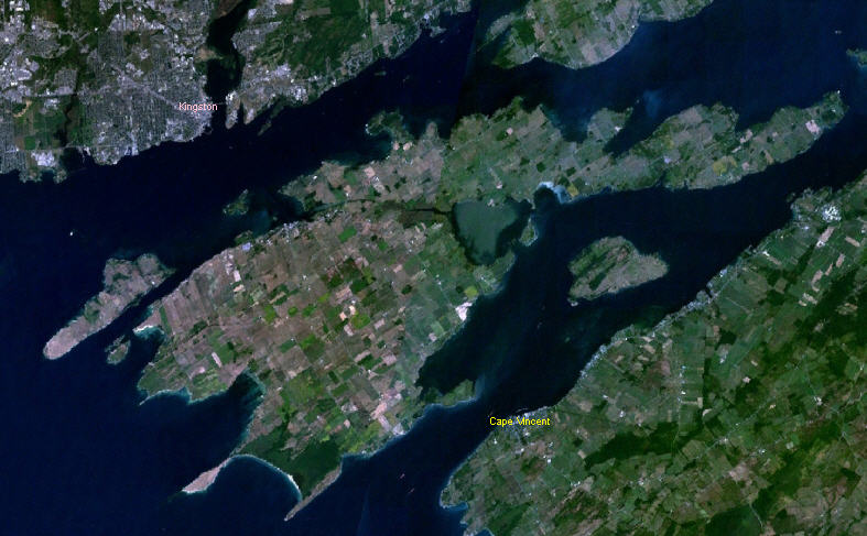 NASA Satellite view of Wolfe Island